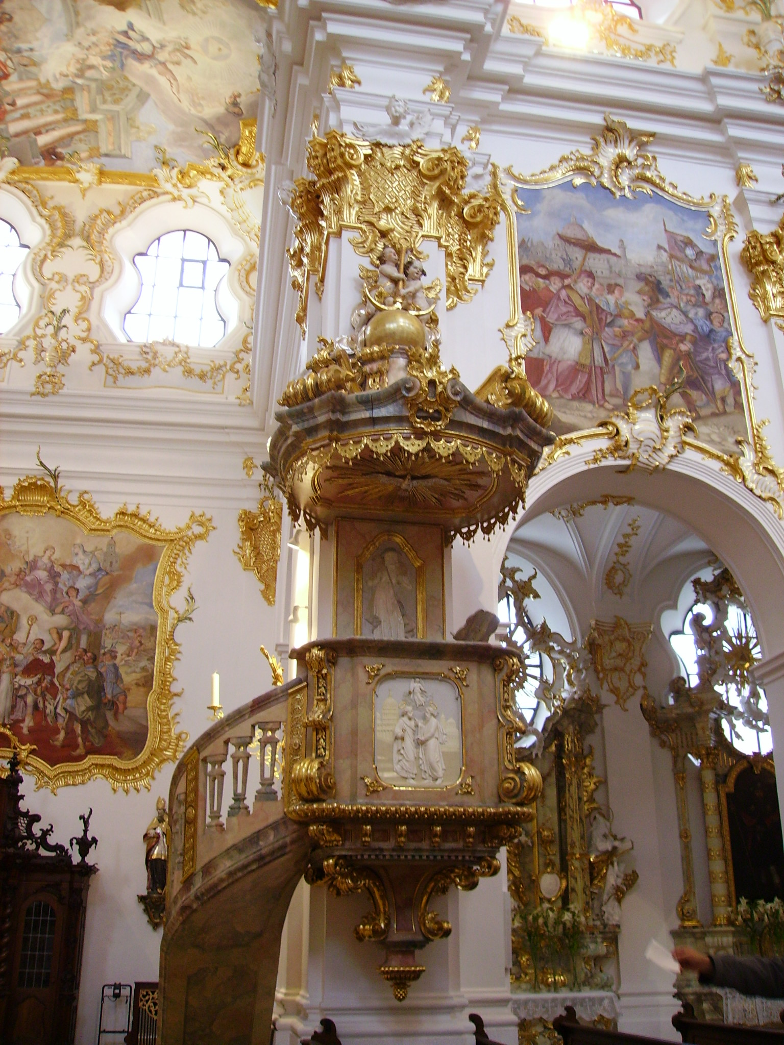 Pulpit of the Basilica of Our Lady to the Old Chapel, Regensburg